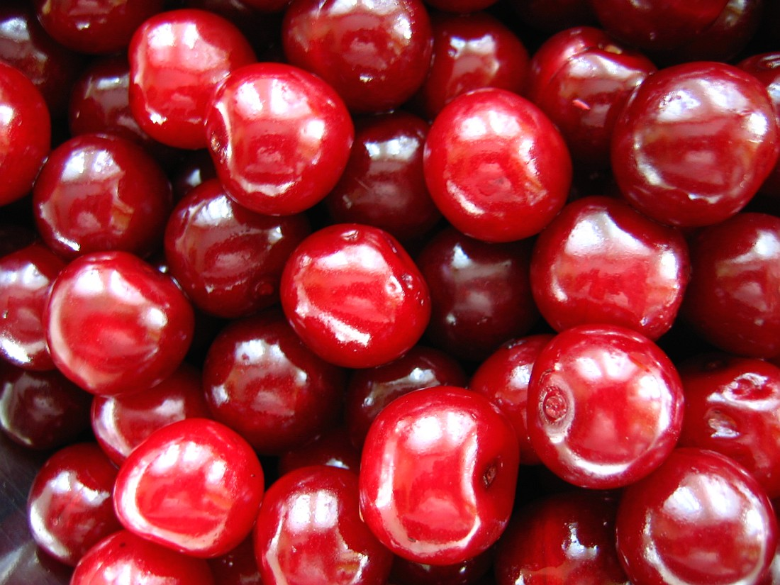 Cherry fruit (Prunus cerasus), cultivated in Poland.